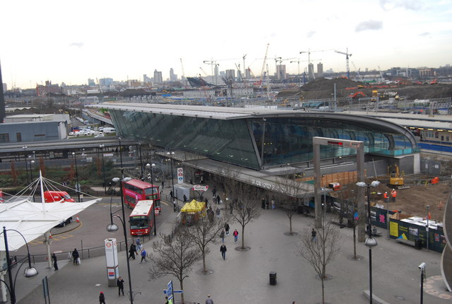 2012 Olympic Park viewed over Stratford Station from the roof of The Stratford Centre Stratford is a major transport hub in East London. Several overground lines including the cross London line to Richmond pass through here, as well as the Jubilee underground line & DLR. There is also a Channel tunnel link & a bus station outside. This view will change dramatically over the next 3 years.